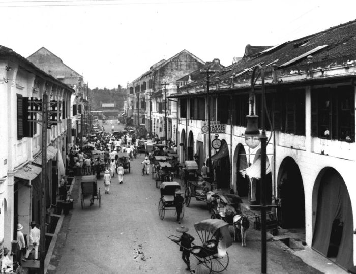 Street view in Medan's Chinese quarter